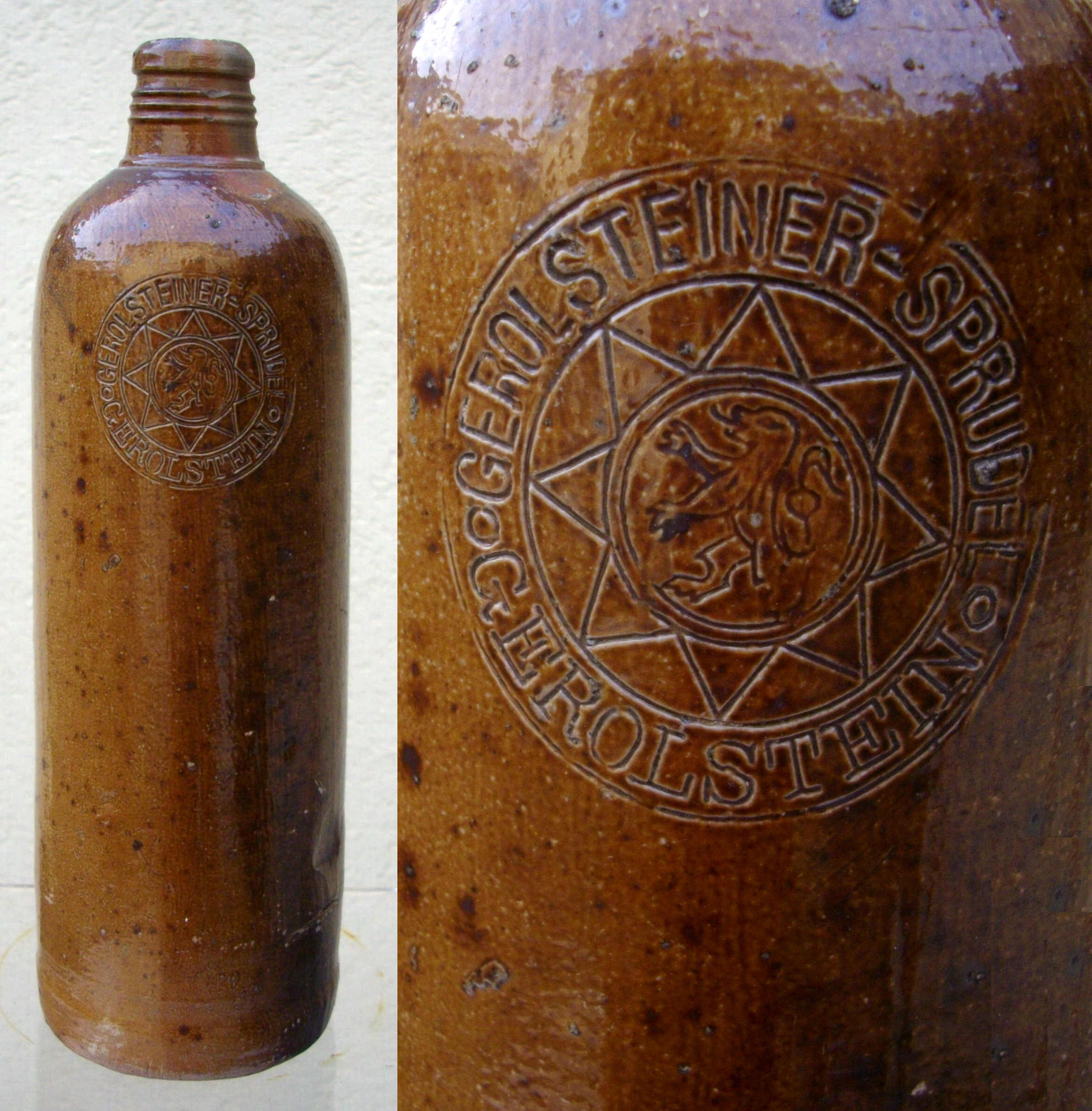 Stoneware mineral water bottle (19th century), from Gerolsteiner Brunnen, Germany.